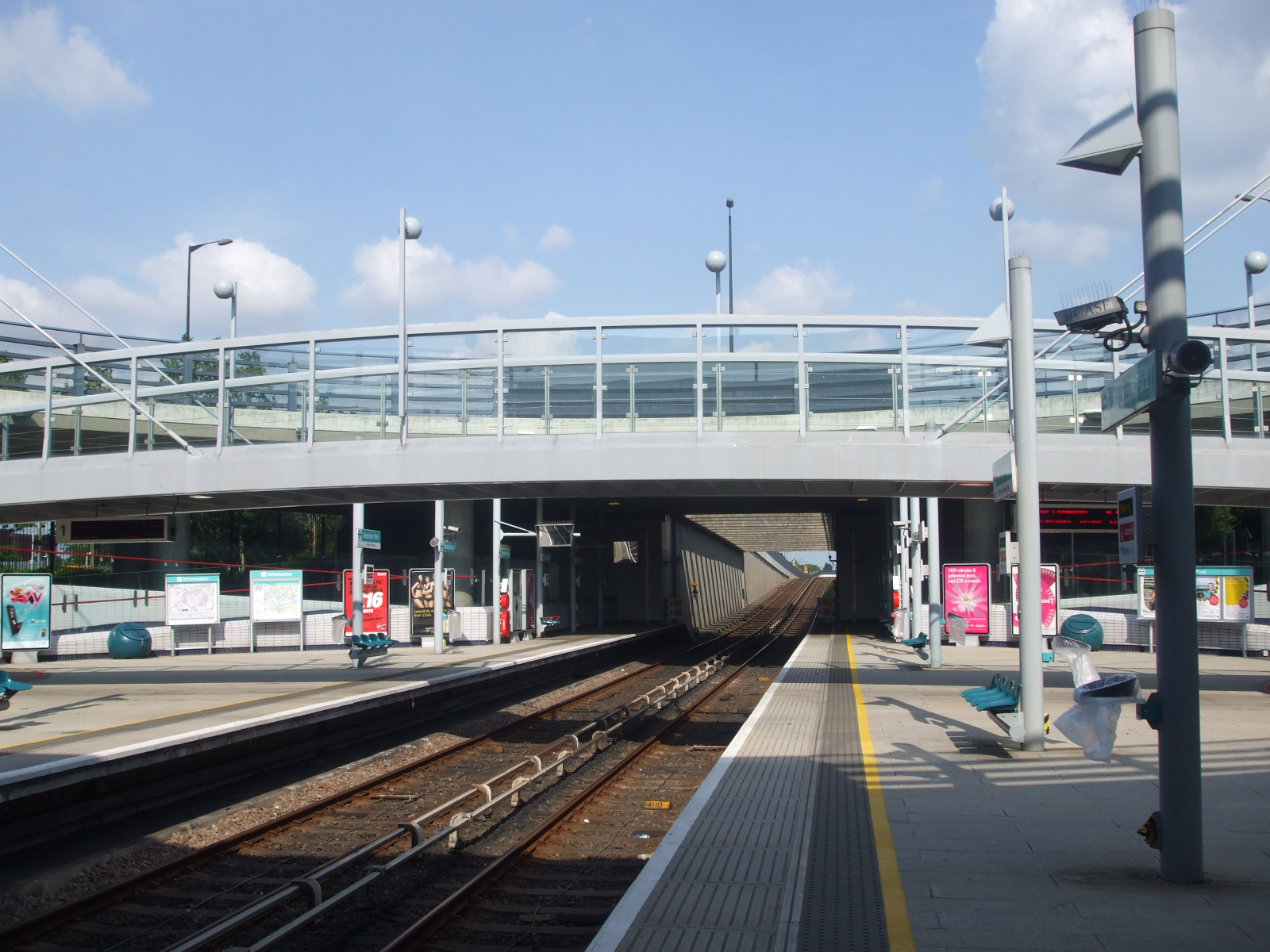 Looking eastbound at Beckton Park DLR station